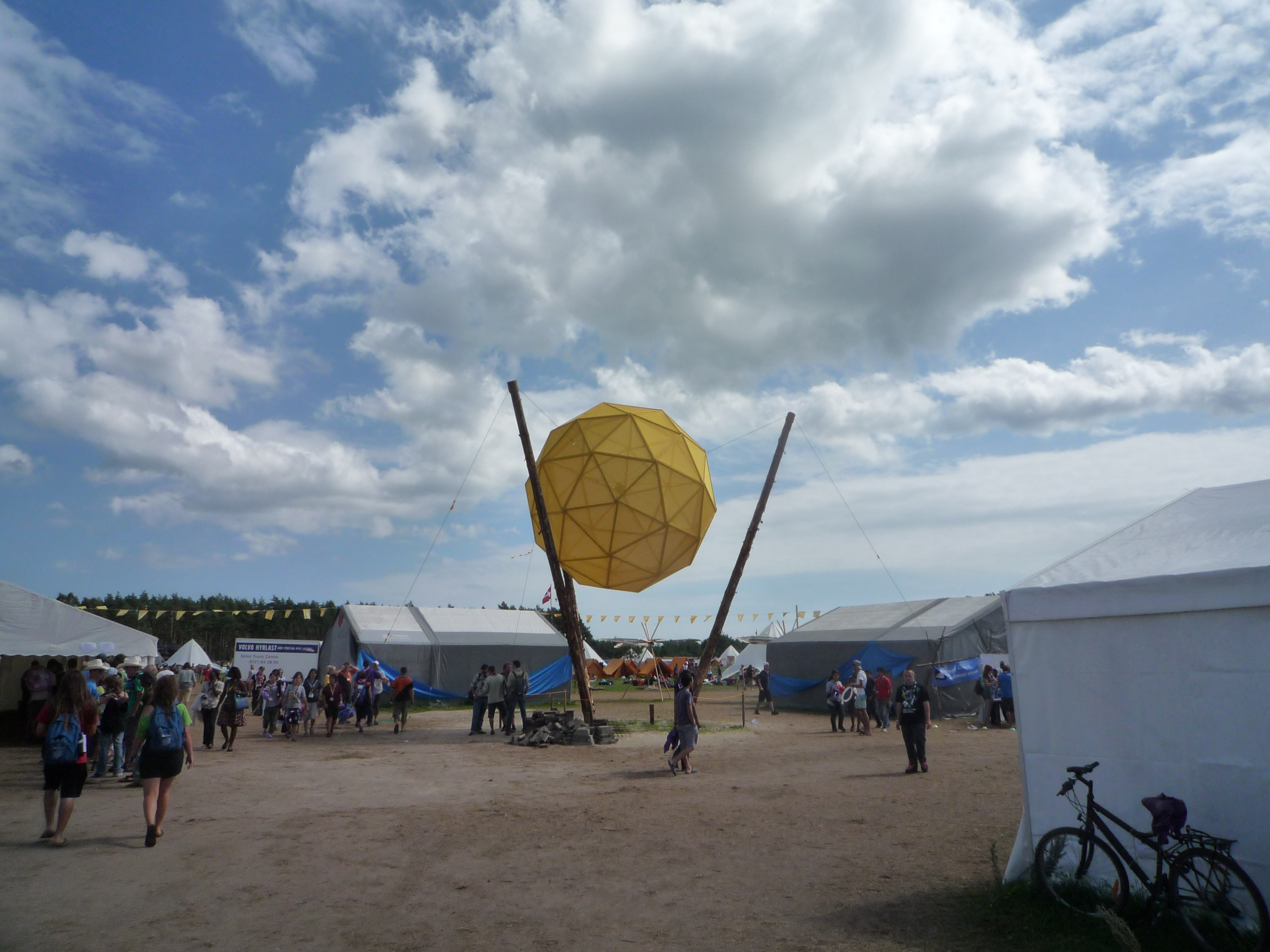 The view of the summer town center at the 22nd World Scout Jamboree